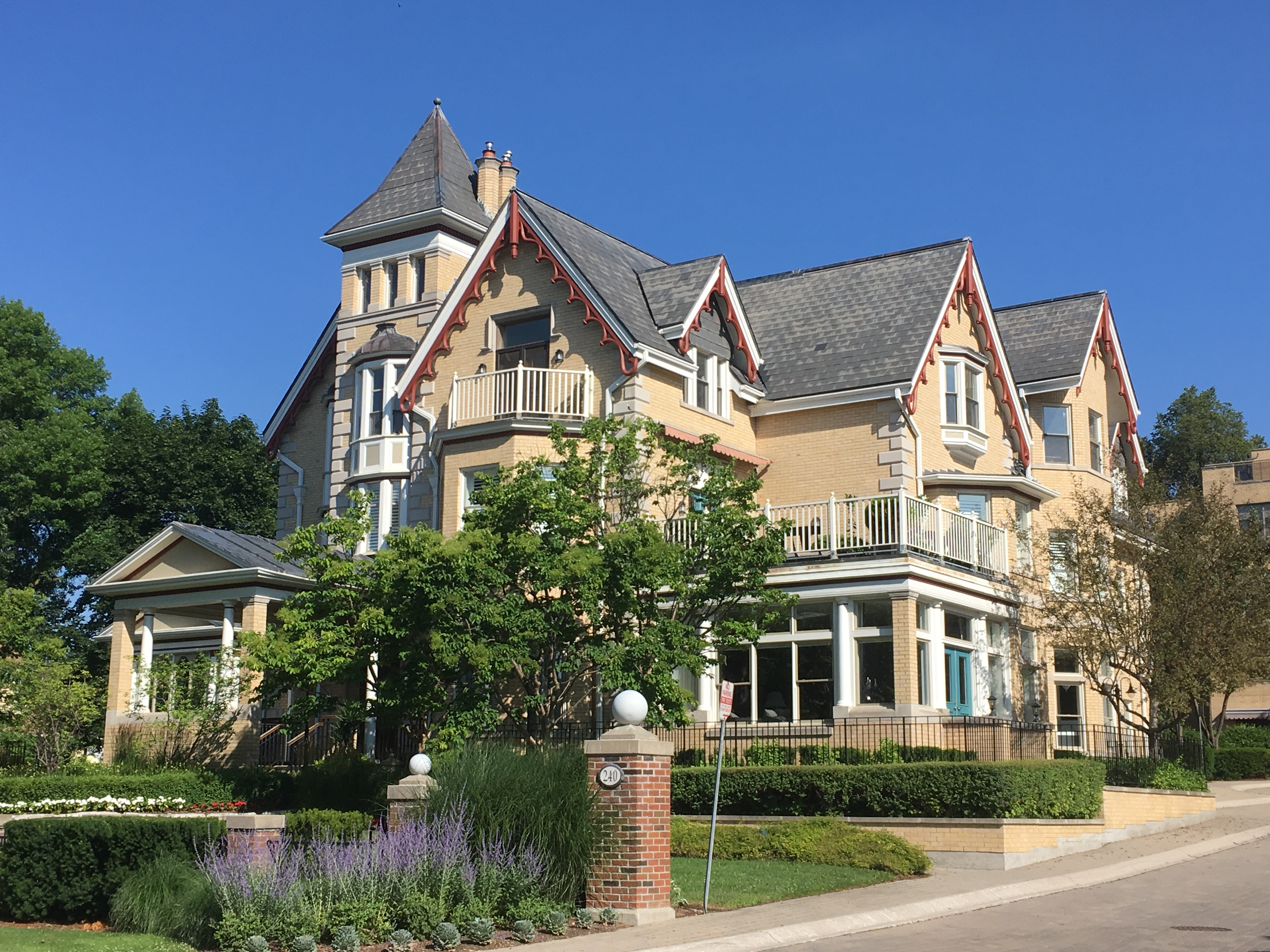 Sir Adam Beck Manor, replica of Sir Adam Beck's mansion, at 240 Sydenham Street, London, Ontario